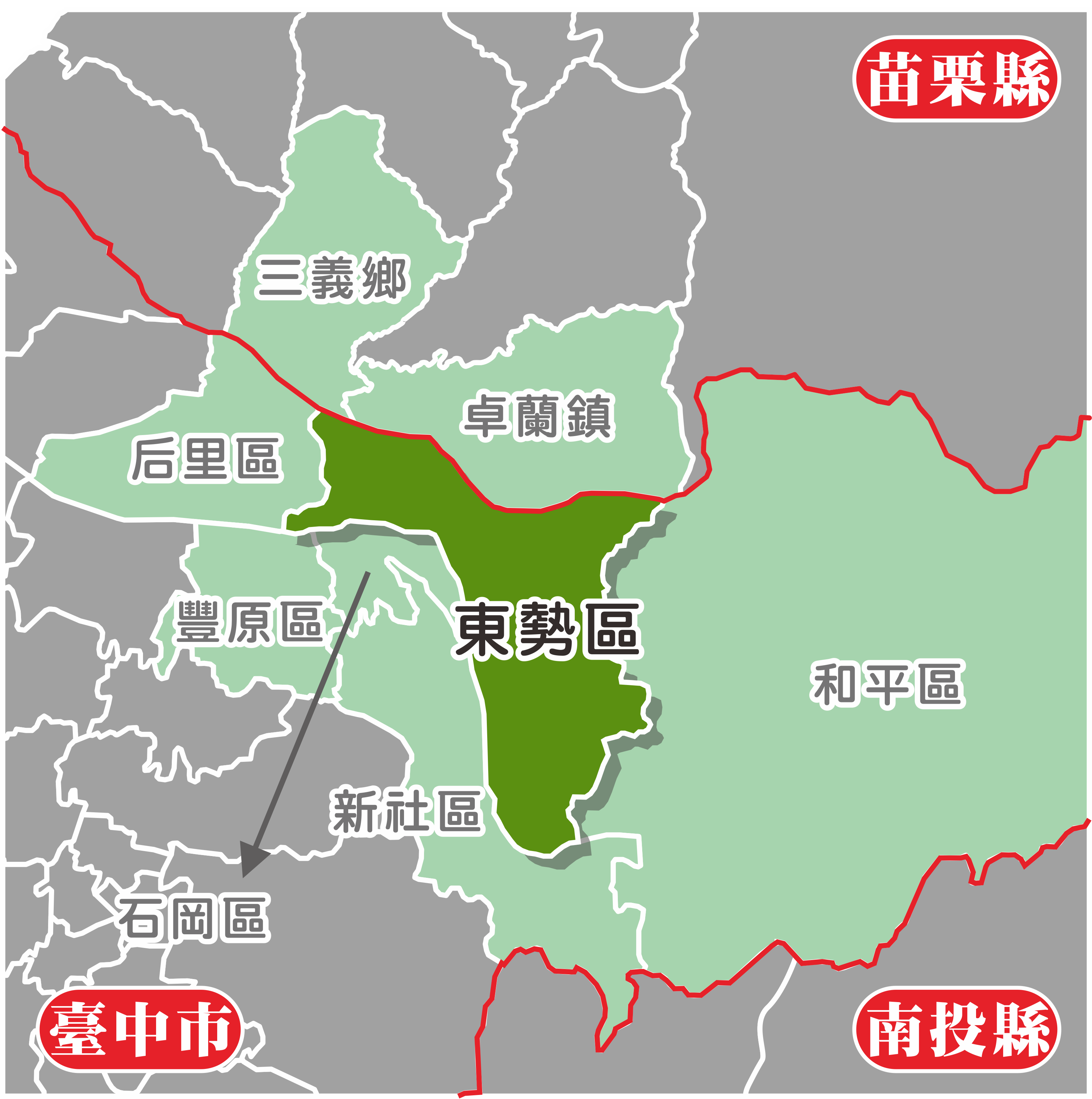 Dongshi District